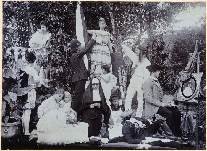 Tableau vivant (living picture) in the Dutch East Indies on the occasion of Queen Wilhelmina's accession to the throne